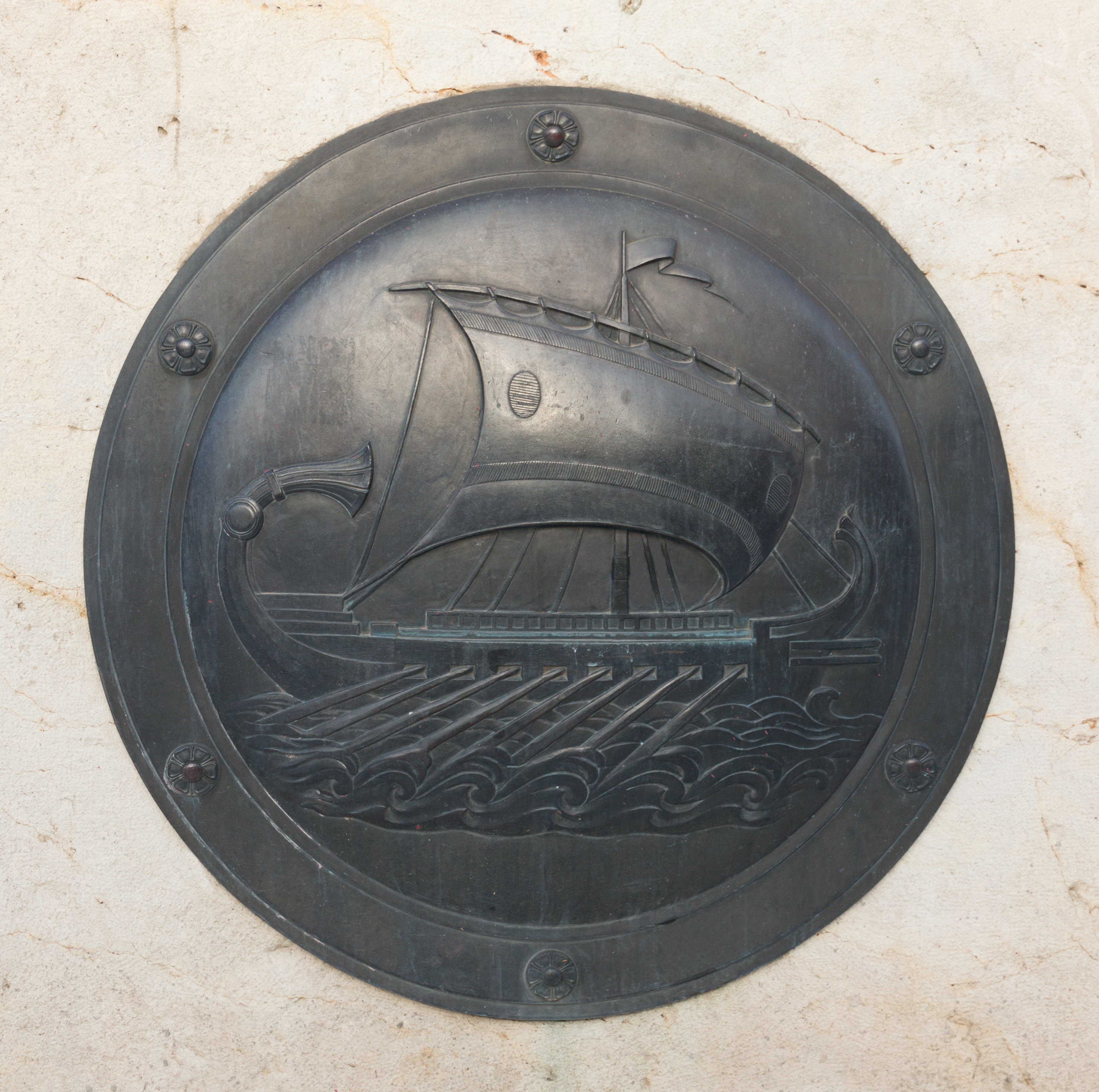 A bronze decorative round shield representing an ancient greek boat, Tomb of the Unknown Soldier, Constitution Square, Athens, Greece